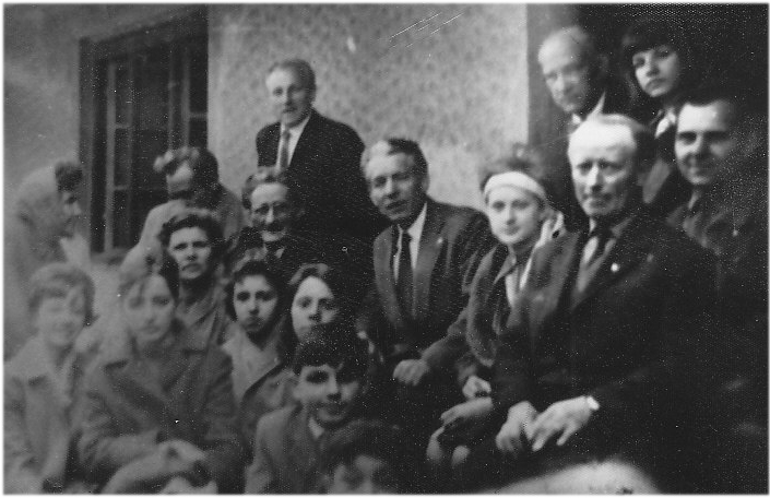 The Esperanto Club members from Dombóvár, they are in Abaliget (1966), Hungary